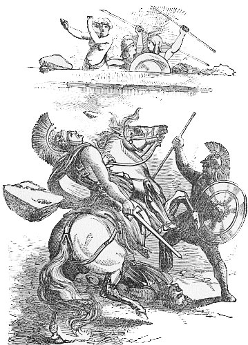 Death of Pyrrhus. Illustration in Abbott's "History of Pyrrhus", 1901 edition.